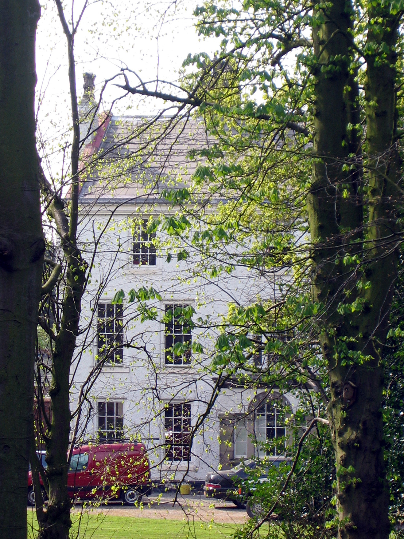 Moore Hall, Moore, Cheshire, a mansion house built in the early 18th century